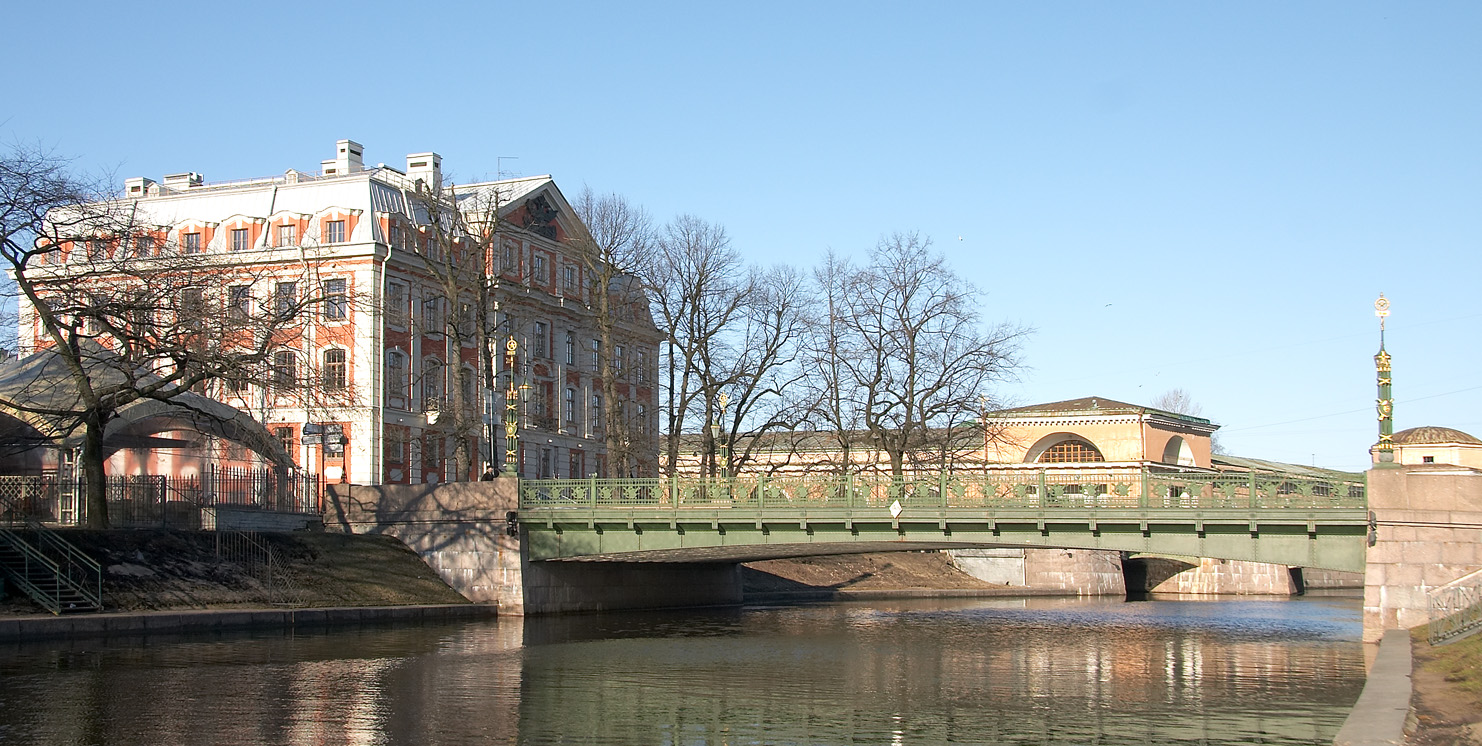 Second Garden bridge in Saint Petersburg, overview